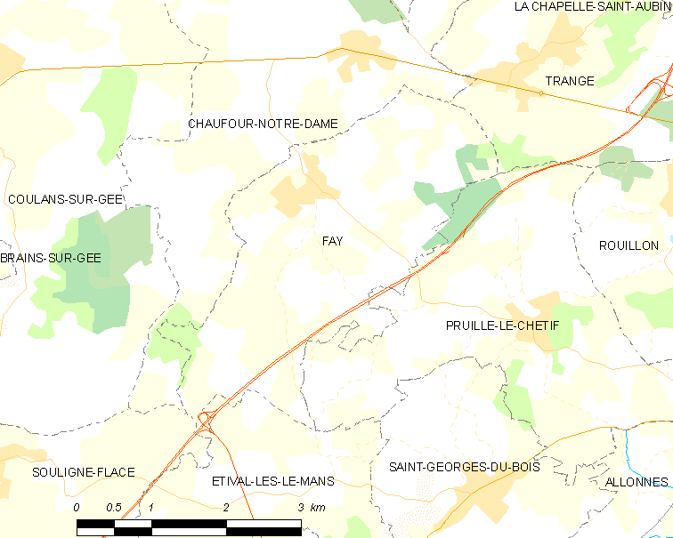 Map of French municipality